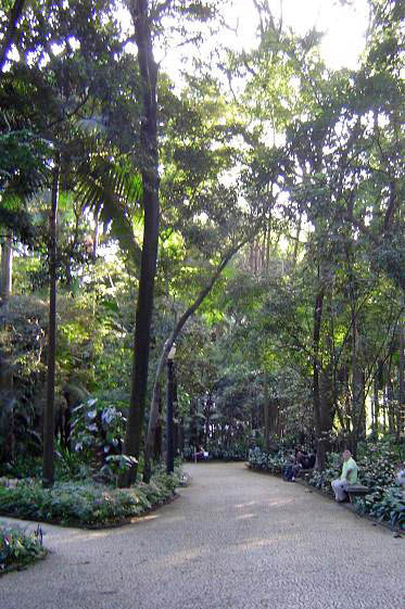 Trianon Park, São Paulo, Brazil. Photo taken by Nero.